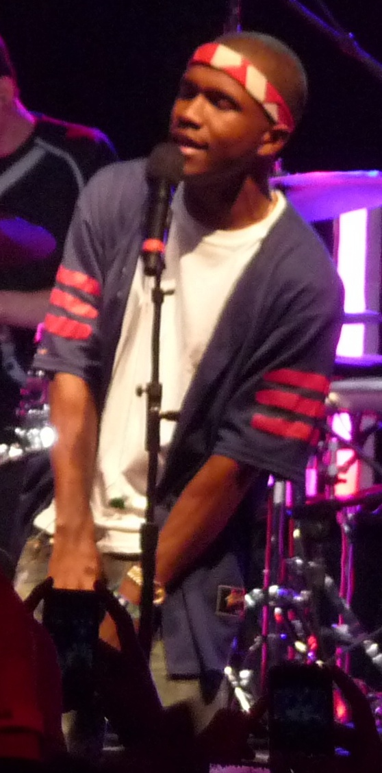 Frank Ocean at Coachella Music Festival in April 2012.